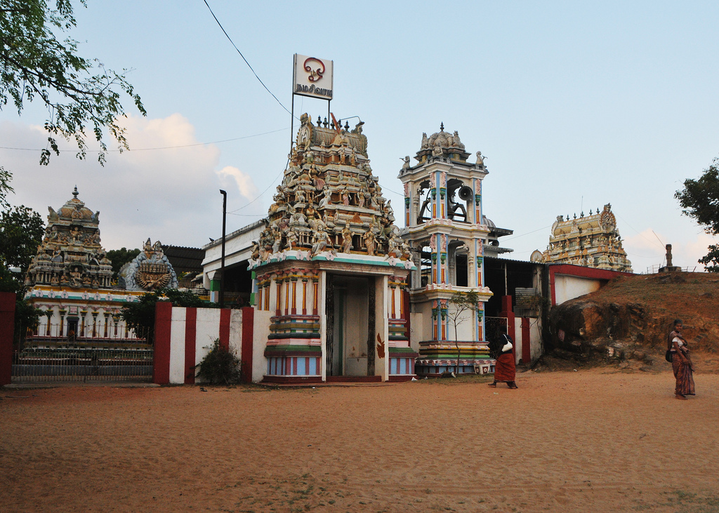 Also known as Thirukoneswaram is a Hindu temple which is located in Trincomalee, Sri Lanka. The original temple was believed to be over 2500 years old before the Portuguese destroyed it in 1505 AD and then the locals rebuilt it in the 19th century.